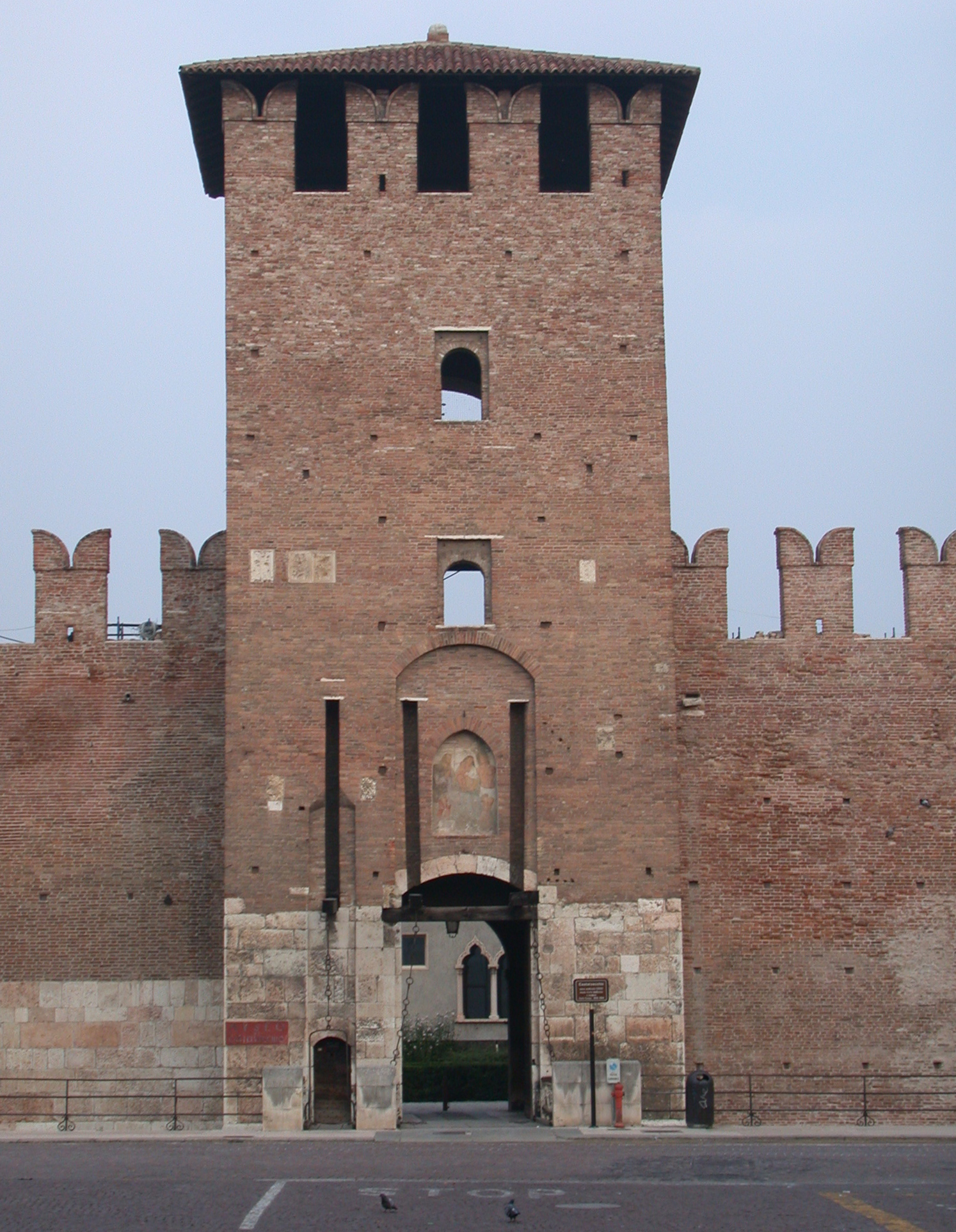 Verona, "Castelvecchio" (entrance with tower)